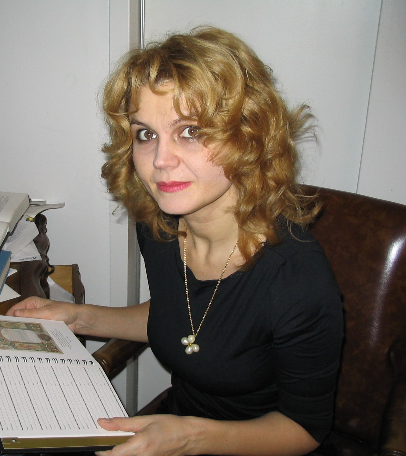 Iulia Motoc in her officeRomână: Iulia Motoc în biroul său